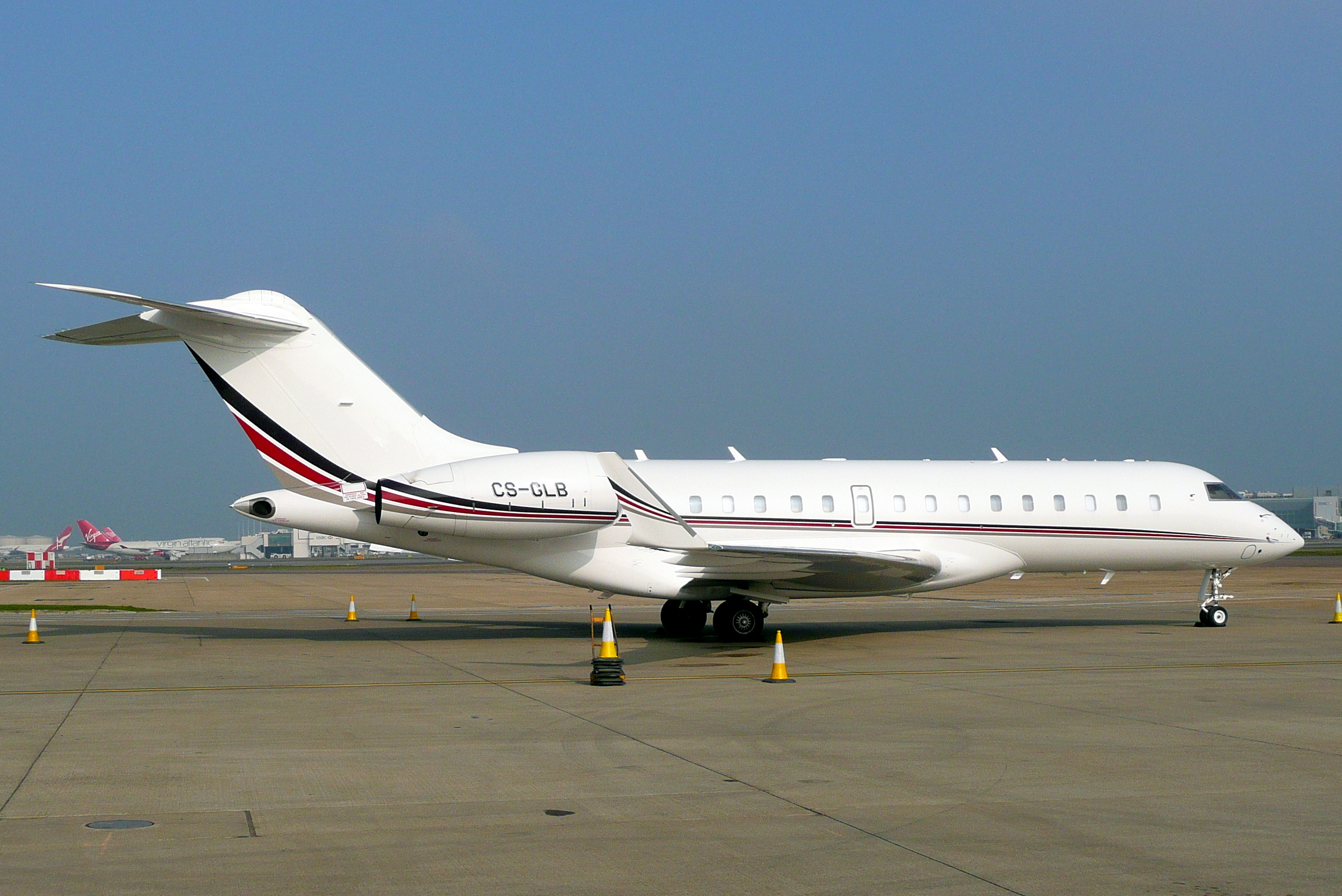 CS-GLB Bombardier Global 6000 NetJets on std 456.